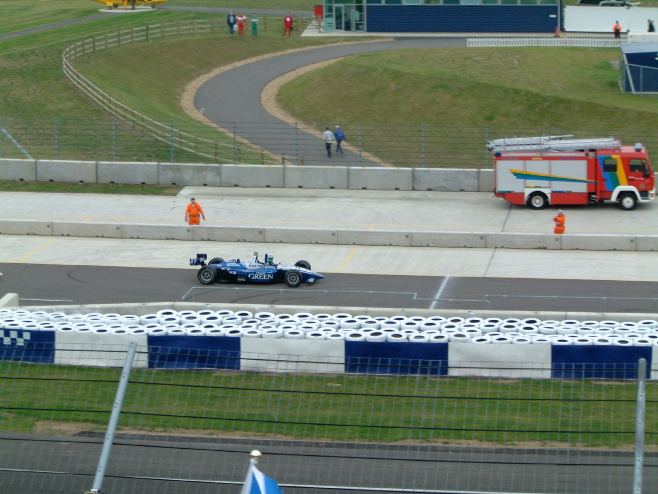 Dario Franchitti celebrating his fourth victory of the 2002 CART season in the 2002 Sure For Men Rockingham 500